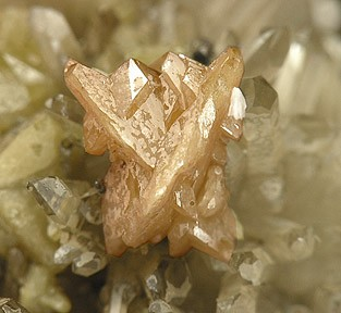 Monazite-(Ce) Locality: Siglo Veinte Mine (Siglo XX Mine; Llallagua Mine; Catavi), Llallagua, Rafael Bustillo Province, Potosí Department, Bolivia (Locality at ) Size: 7.5 x 7.1 x 3.6 cm. Monazite gets its name from the Greek word "monazein", which means "to be alone", in allusion to its isolated crystals and their rarity when first found. Monazite is usually found in granitic pegmatites, but these crystals are found in hydrothermal tin veins where is an absolute absence of Thorium (usually a trace element in Monazite). This is a remarkable, very well crystallized, ridiculously rare, specimen consisting of sharp, lustrous, translucent, orange-pink, twinned crystals on Monazite-(Ce) measuring up to 7 mm (!) on Quartz crystals on matrix. These twins are some of the most distinct and impressive twinned Monazite crystals I have seen from Bolivia. The crystals actually perform a color change in different lighting ranging from orange-pink to almost colorless depending upon the light source. It is very difficult to obtain any specimens of this incredibly beautiful and rare phosphate, especially in crystals from Bolivia like this. This piece is from the same mine for which this material was discovered along the Contacto and San Jose veins in this mine and was first described by Sam Gordon and Mark Bandy. Ex. Brian Kosnar.